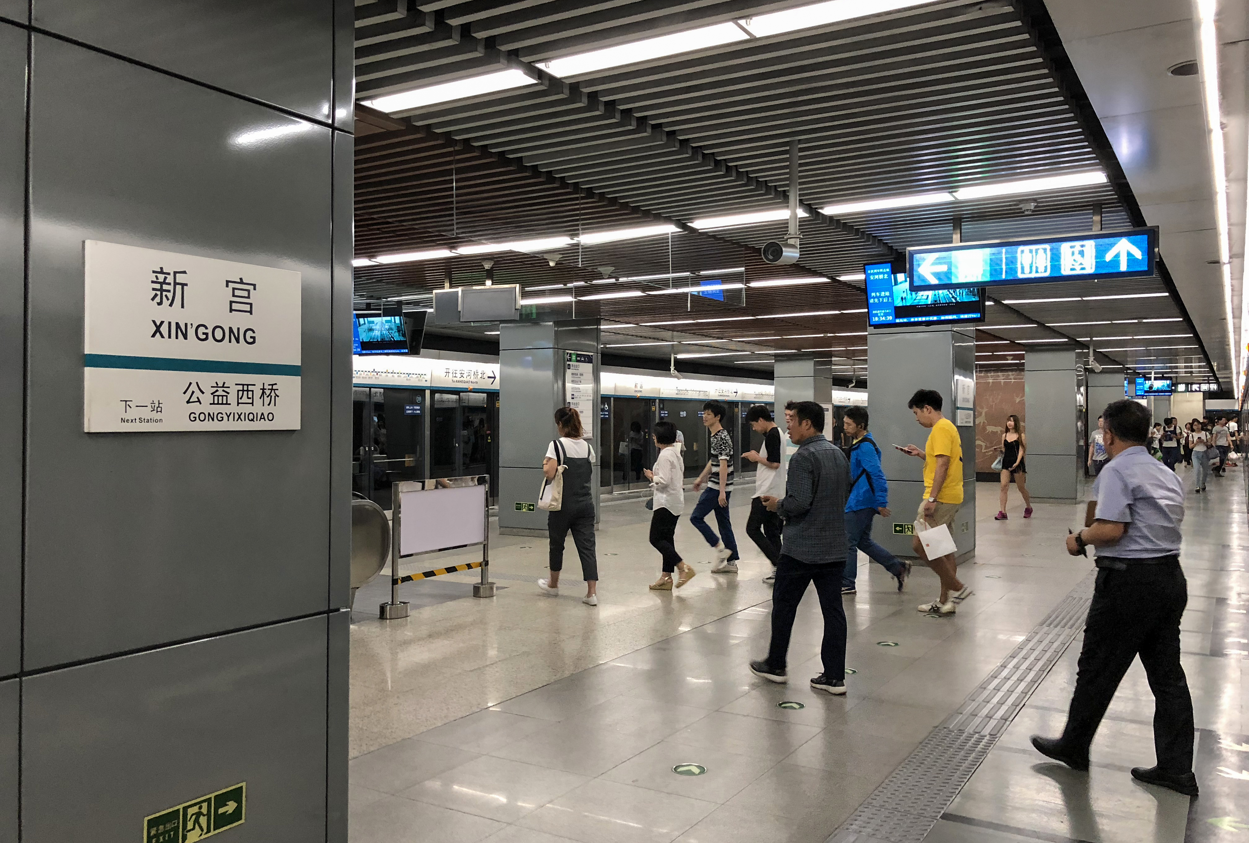 It is "XIN'GONG" according to the running-in board.